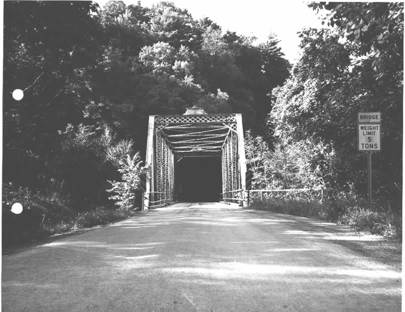 Bridge in Clinton Township, which carries Legislative Route 60010 over Scrubgrass Creek in Clinton Township, Venango County, Pennsylvania, United States. Built in 1882, the bridge is listed on the National Register of Historic Places.